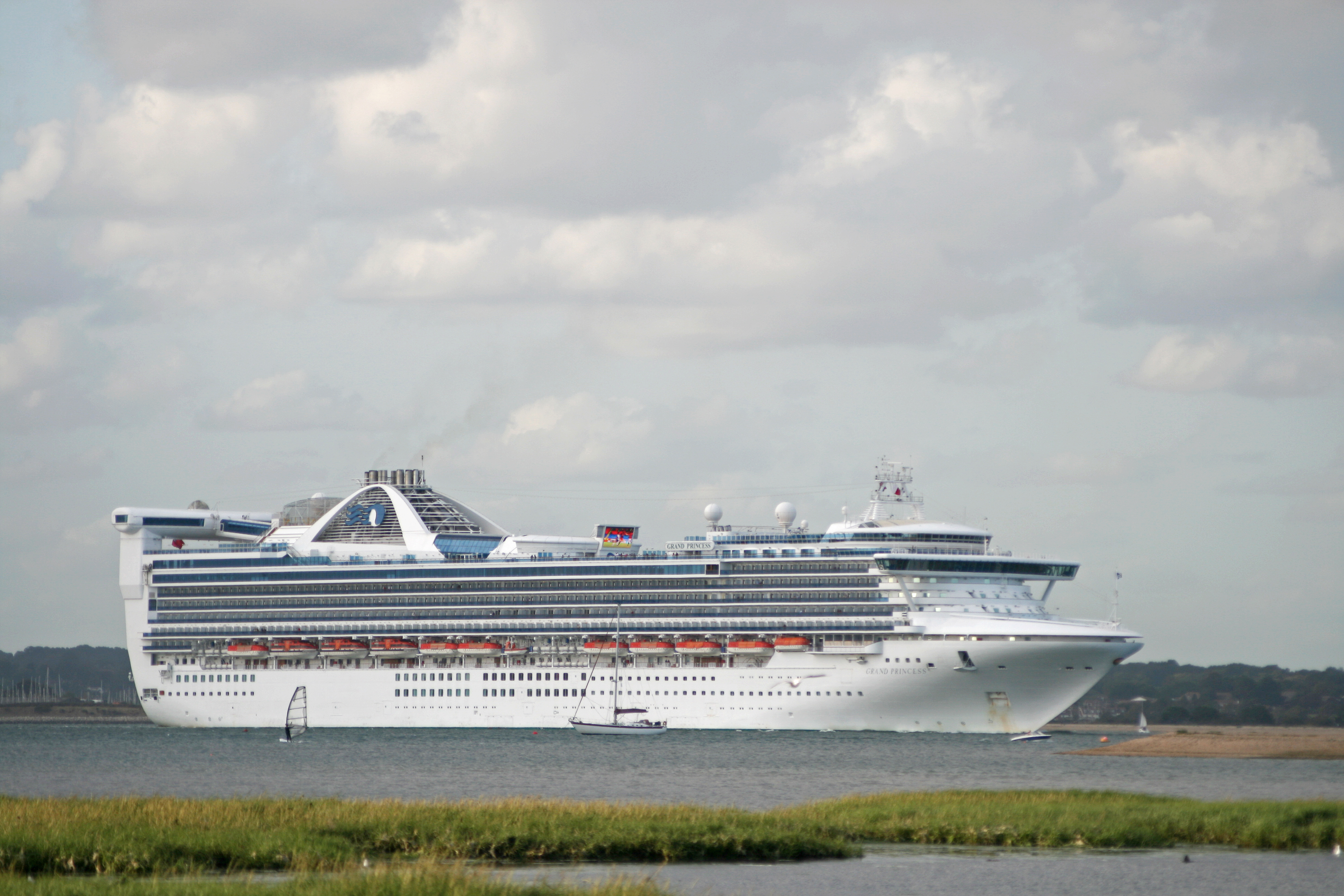 113,000 tons cruise ship Grand Princess passing the Esso Fawley Refinery in Southampton Water, outward bound from Southampton. Close inspection will see that passengers by the swimming pool on the upper deck are watching football on the giant TV screen. Image uploaded by me George.Hutchinson from a photograph taken by and supplied by Brian Burnell. The photograph should be attributed to Brian Burnell. Wikipedia editors are reminded that the copyright remains with the photographer, and that the terms of the Creative Commons Attribution-ShareAlike 3.0 Unported Licence that allow editors to reuse this image apply to Wikipedia editors also, as they do to other reusers of this image. Breaches of the licence terms are not only unlawful, but are also antisocial, in that breaches discourage photographers from making their images freely available to everyone without payment. Non-Wikipedia users are requested to advise Brian Burnell of its use other than on Wikipedia.